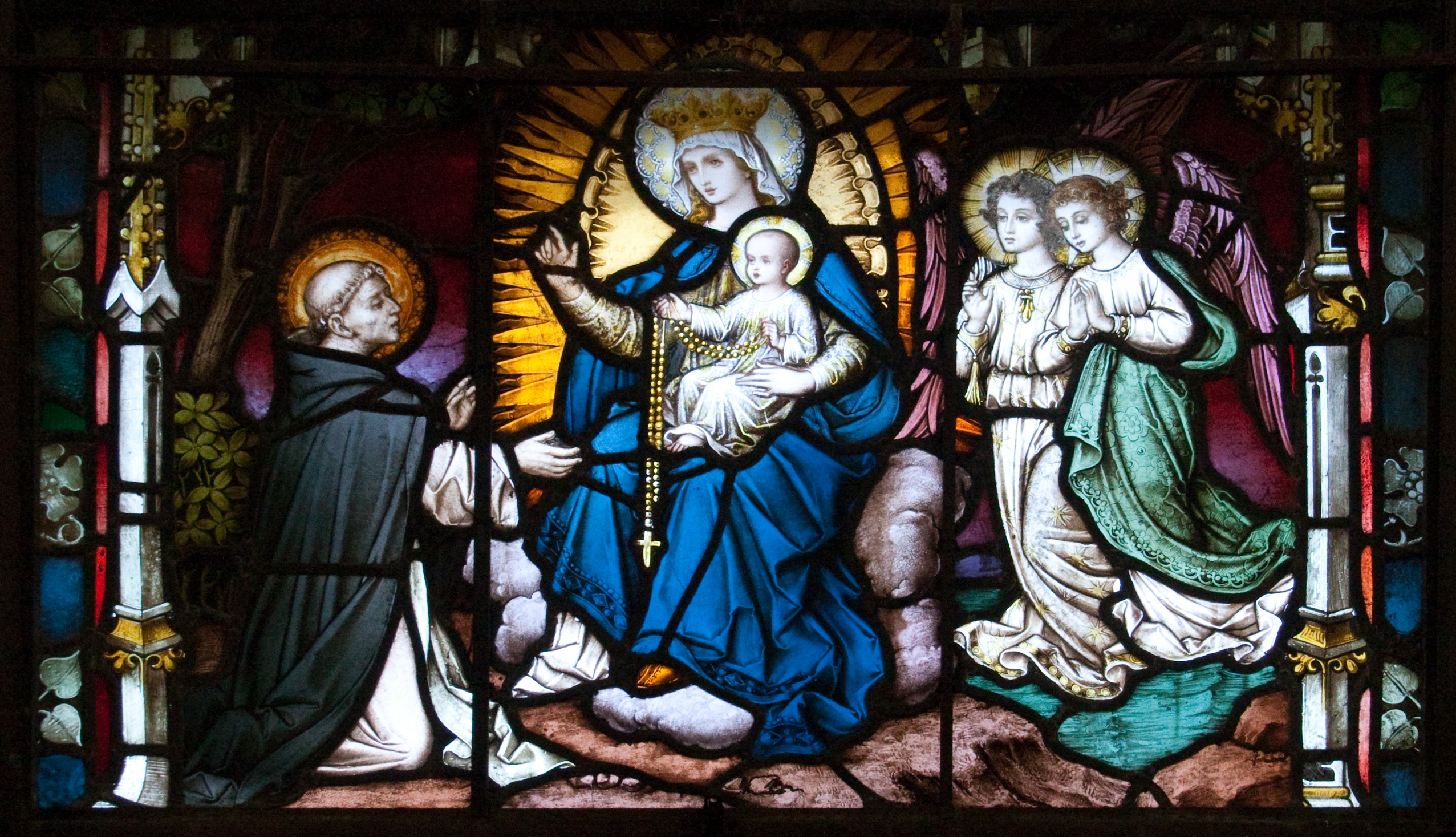 Carlow, County Carlow, Ireland Bottom feature of the left stained glass window in the north transept of Carlow Cathedral, showing how the rosary was given to St Dominic in an apparition by the Blessed Virgin Mary in the year 1214. Created by Franz Mayer & Co. in the 19th century. Franz Borgias Mayer (1848–1926) Alternative names Mayer, FranzDescriptionGerman stained-glass artistDate of birth/death 1848 1926 Work location Munich Authority control : Q21000395 VIAF: 80993958 GND: 136691900 creator QS:P170,Q21000395